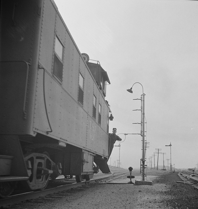 Isleta, New Mexico. Conductor of a passing freight train on the Atchison, Topeka and Santa Fe Railroad picking up a train order